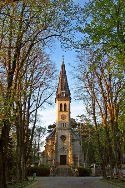 ensemble of nature and neo-gothic architecture, a row of trees leading to a church, forming an entrance situation or vegetable cathedral in front of the church which is situated in Weissenbach an der Triesting, Lower Austria